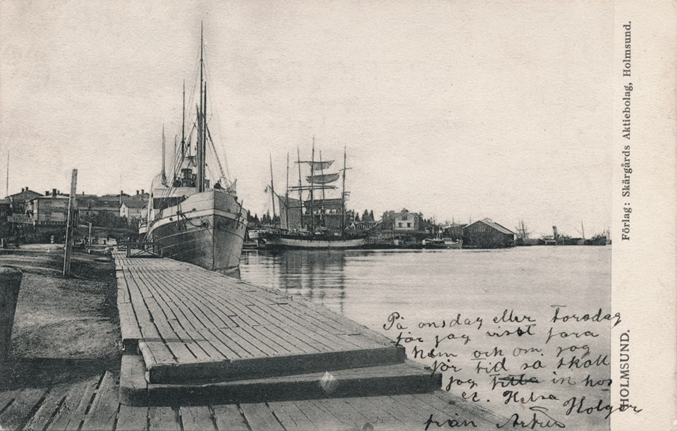 Holmsund harbour (postcard stamped 1908).